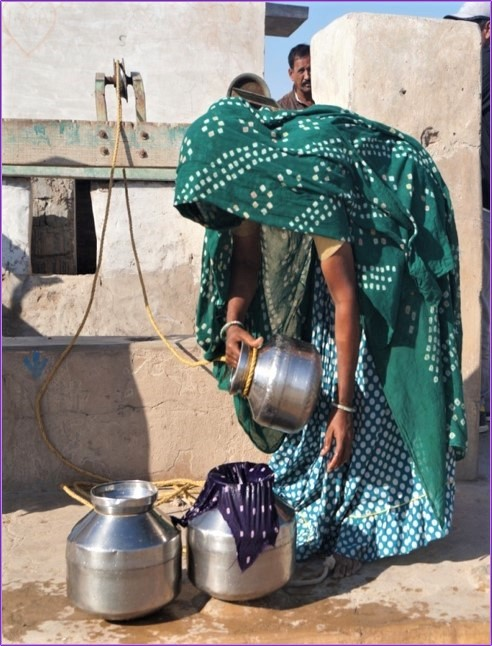 IDRF is supporting water harvesting program in impoverished and backward hilly areas, where rainfall is inadequate & erratic. Rain roof-water structures, earthen check-dams, diverted existing spring water into wells/tanks to harvest rainwater has been done. So far 4,000 people have benefitted but there is still a dire need to cover thousands more facing acute water shortage.